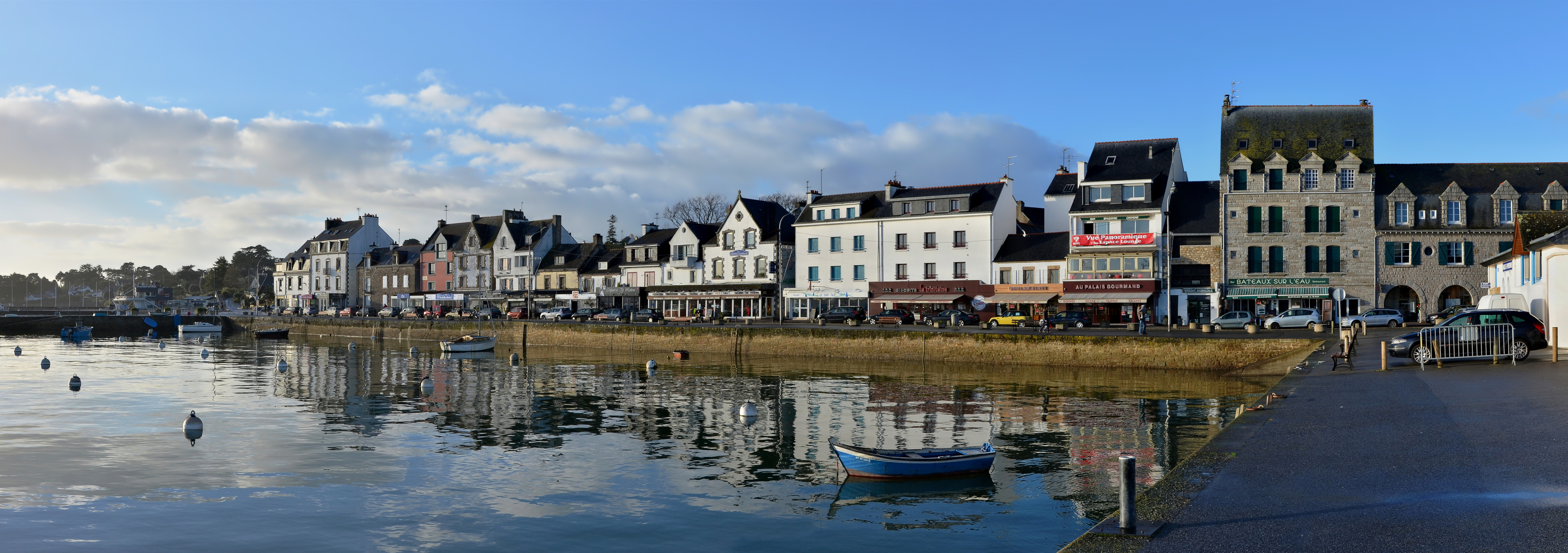 Sea front as seen from the marina, La Trinité-sur-Mer, Morbihan, France.